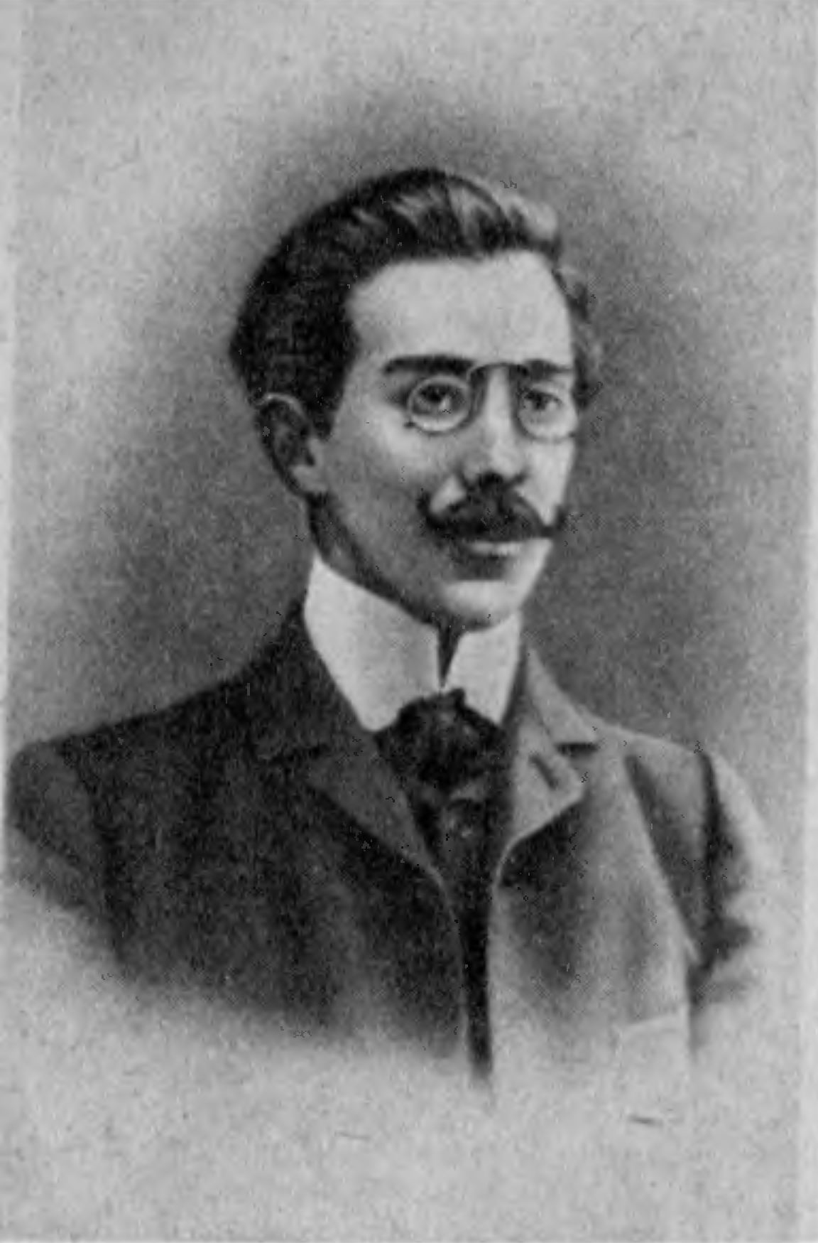 Alexander Belayev, a Russian Science Fiction author